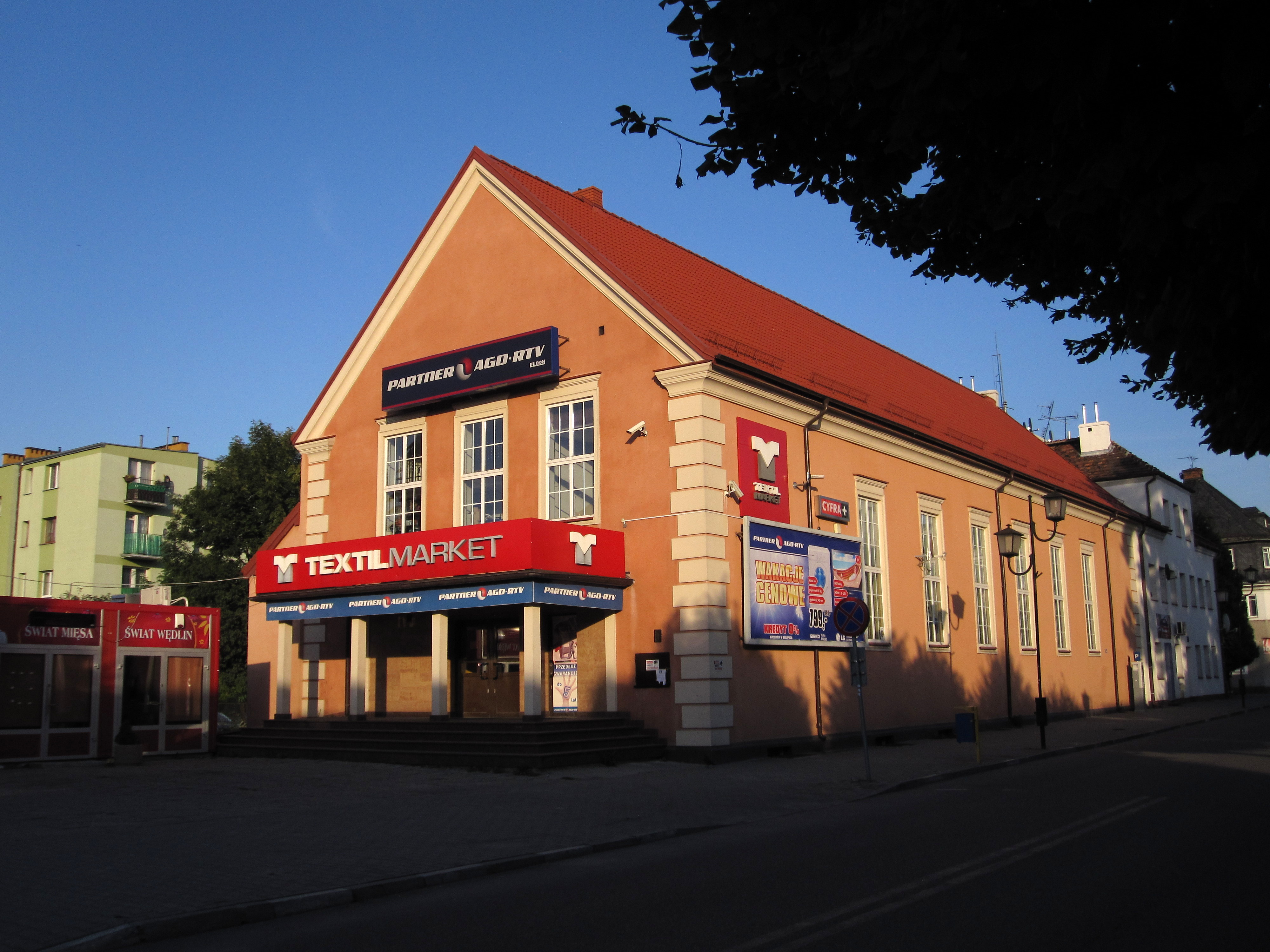 Działdowo - Building on 22 Jagiello street